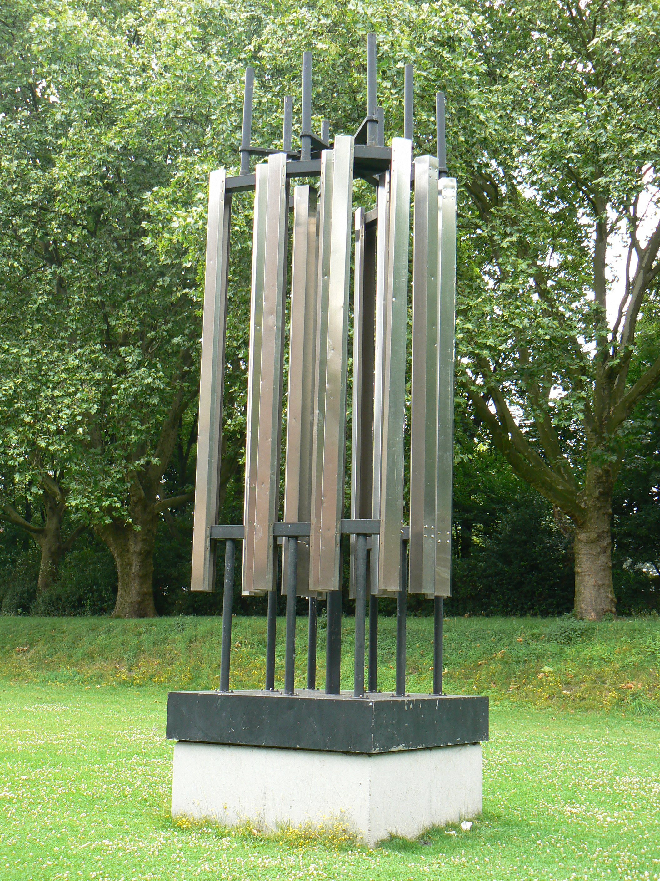 kinetic sculpture Lichtmaschine 1970 at Schloss Horst in Gelsenkirchen-Buer/Germany